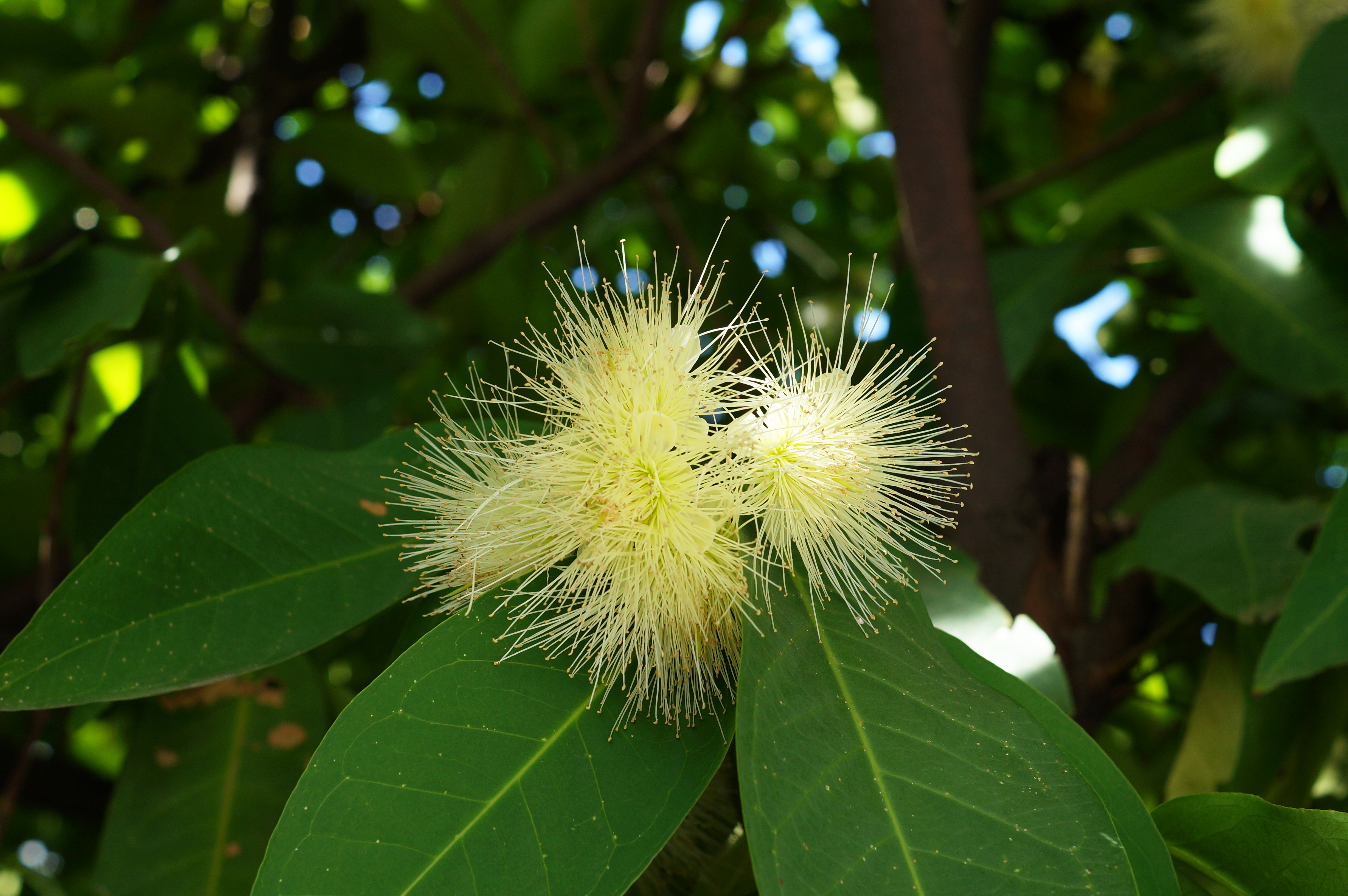 Champoo tree flowers